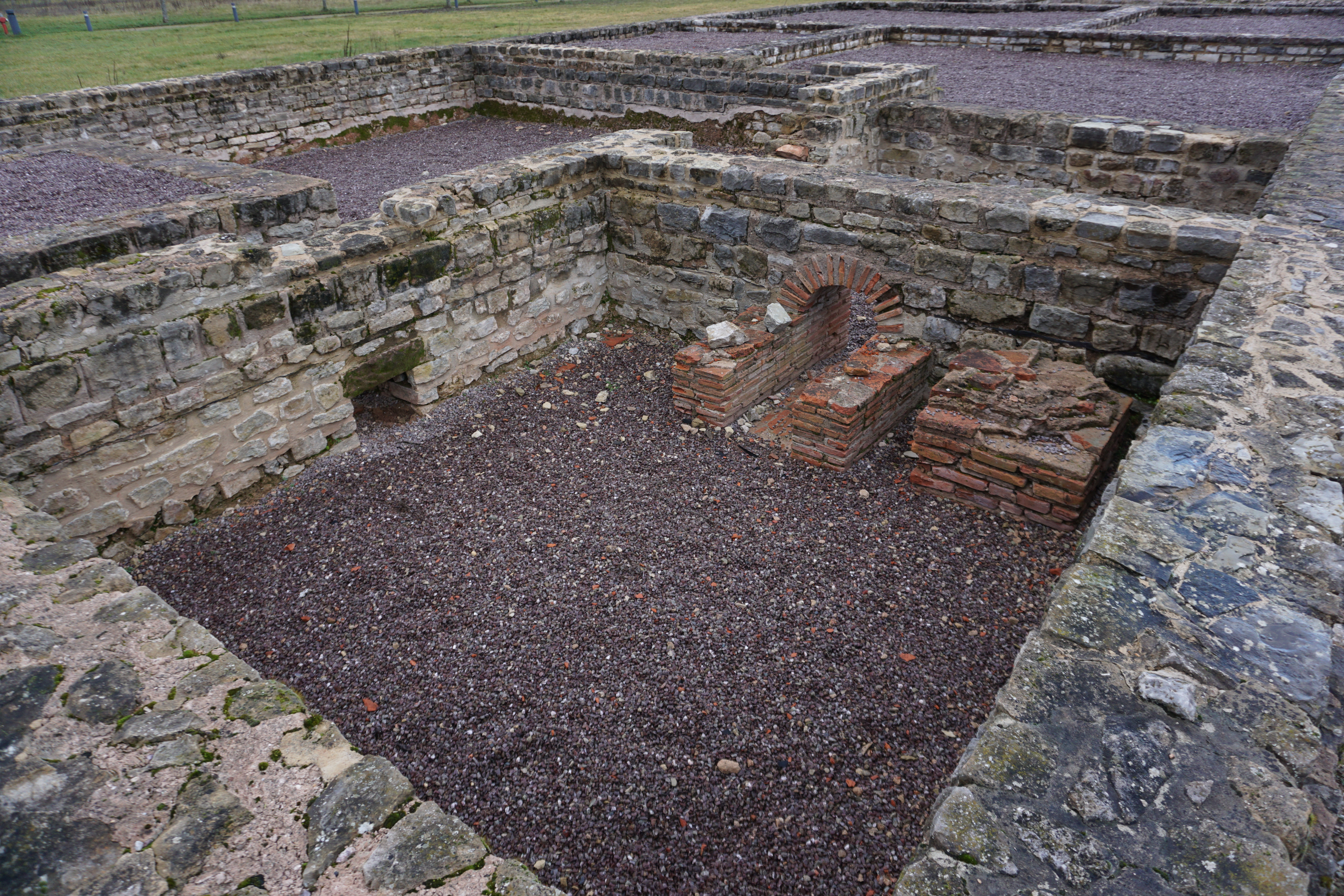 Hypocaust in one of the living quarters of the south wing of the west wing.